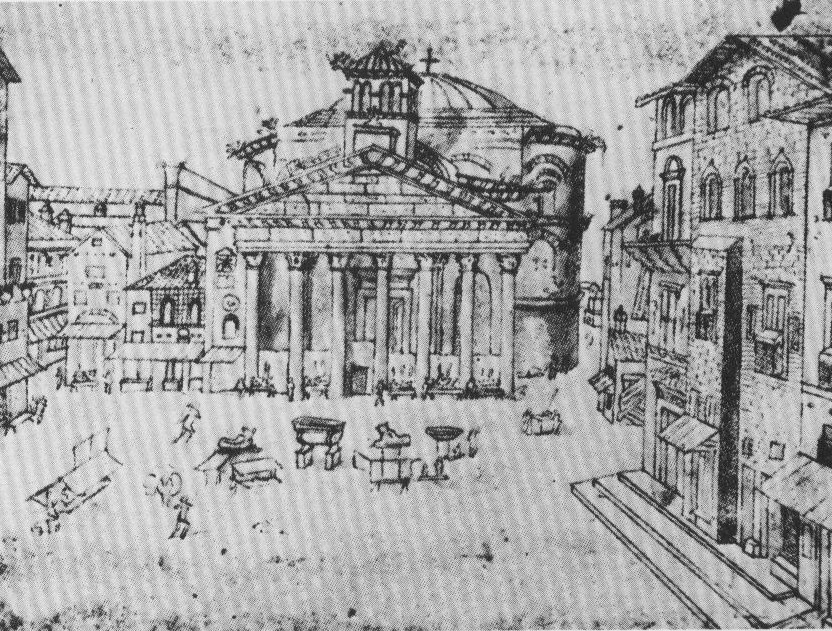 view of Pantheon of Rome